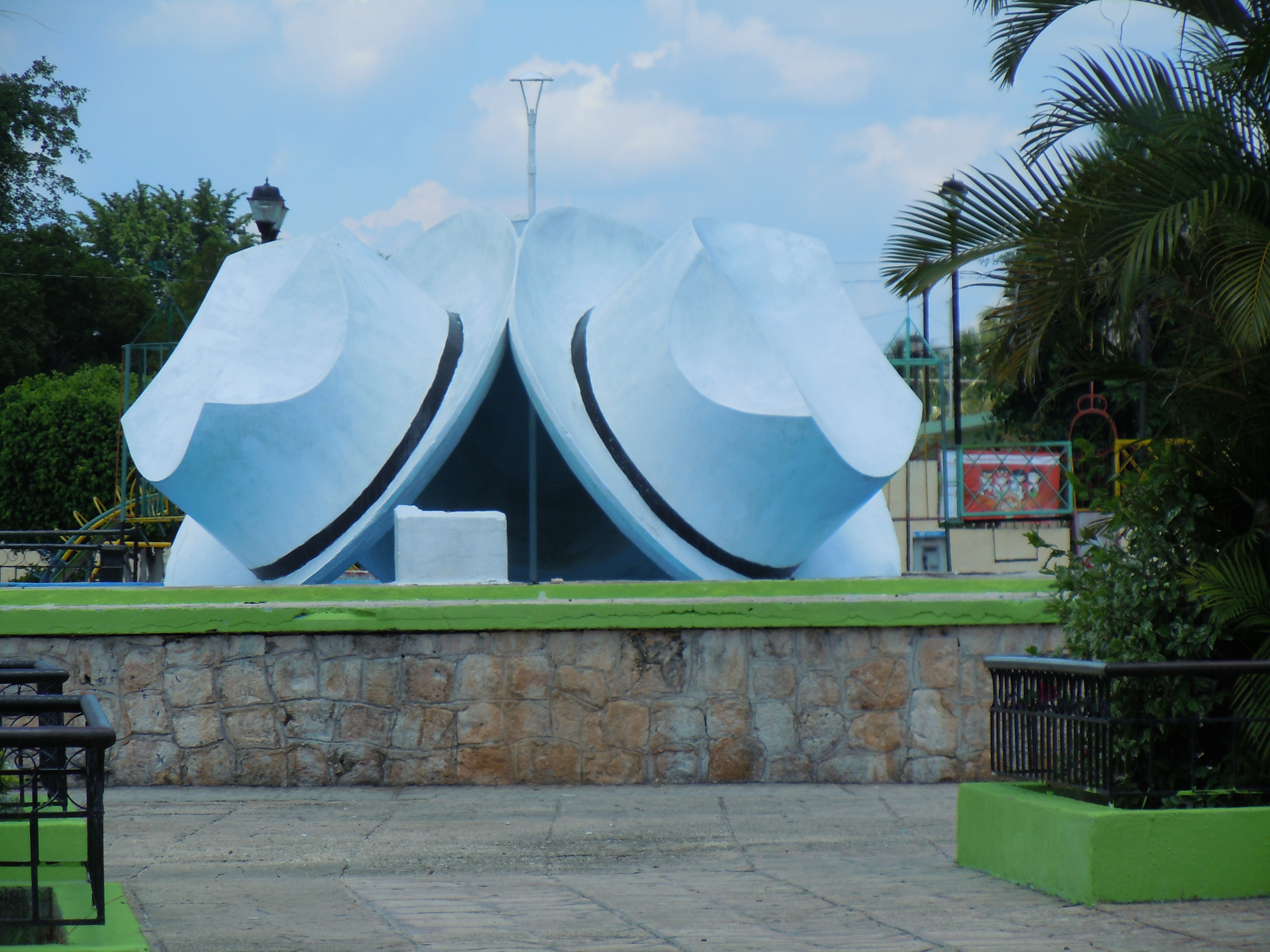 The "Panama Hat Monument" at the zócalo of Bécal — state of Campeche, México.